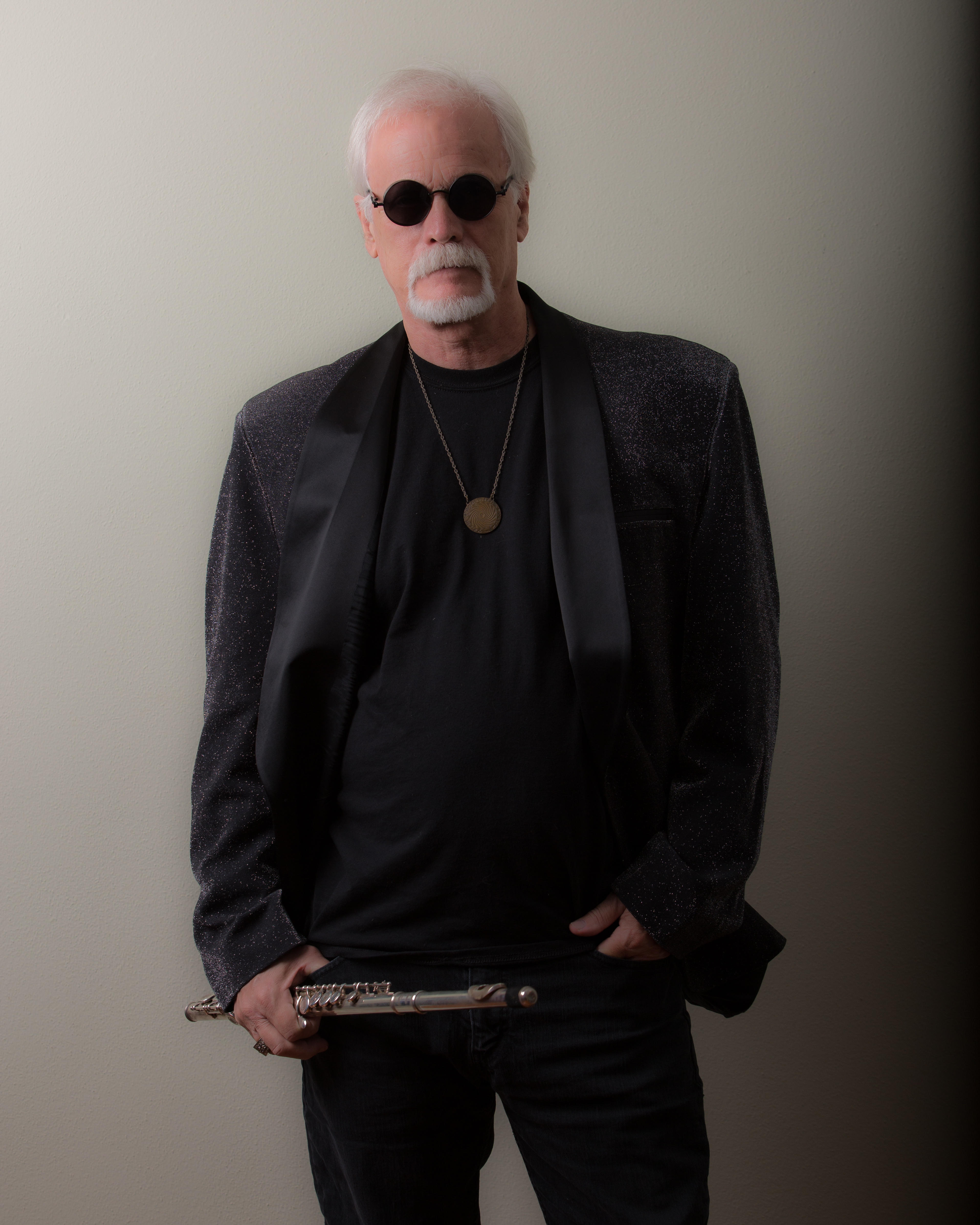 Dave Muse